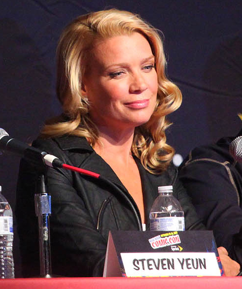 Laurie Holden at the New York Comic Con & Anime Festival 2011.